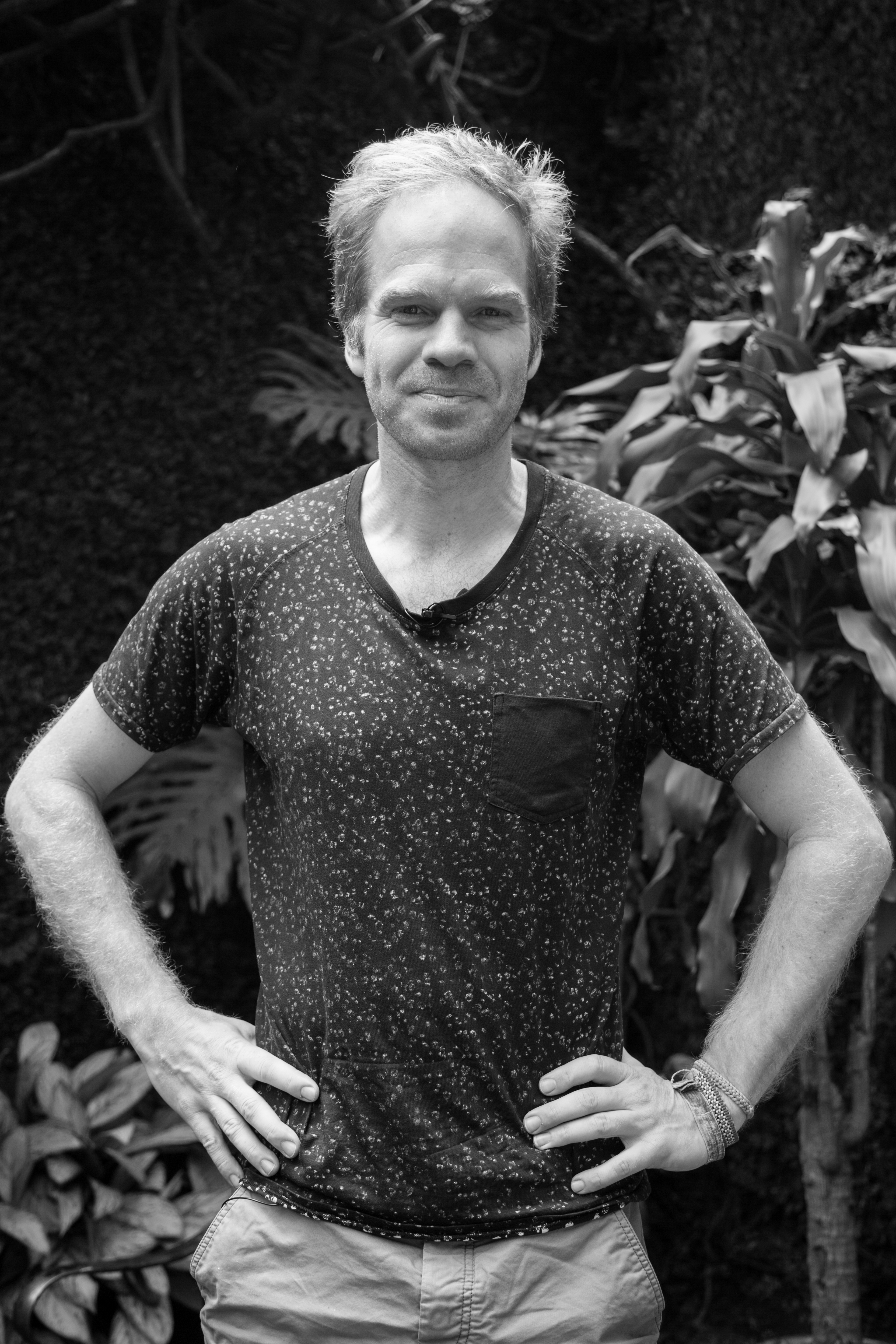 Tom Fassaert, film director of documentary "A family affair". Meson del Alferez Hotel, Xalapa, Veracruz, Mexico. 30 may, 2016. Picture by Delia Martinez for Ambulante Festival.